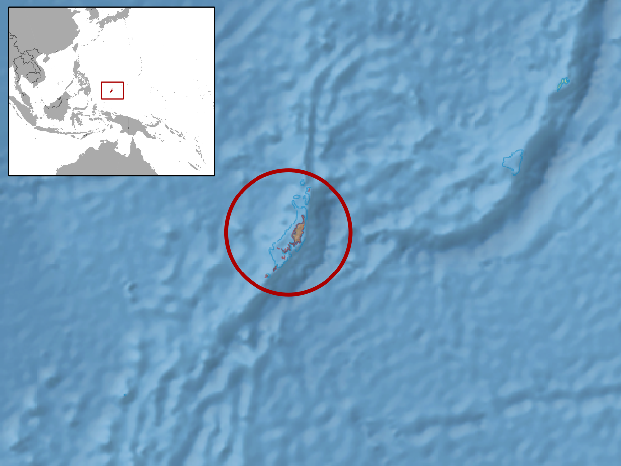 geographic distribution of Cryptoblepharus rutilus